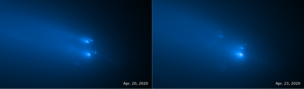 Two new images from Hubble show the doomed comet C/2019 Y4 (ATLAS). Taken on April 20 and 23, 2020, they provide the sharpest views yet of the comet's solid icy nucleus breaking apart into as many as 30 pieces that are each roughly the size of a house. The comet was discovered on Dec. 29, 2019, by the ATLAS (Asteroid Terrestrial-impact Last Alert System) robotic astronomical survey system based in Hawaii. The comet's fragmentation was confirmed by amateur astronomer Jose de Queiroz, who was able to photograph around three pieces of the comet on April 11. With its crisp resolution, Hubble has a front-row seat to look for more pieces. And astronomers weren't disappointed with what it saw. Scientists know that the comet's nucleus — the fountainhead of the glamorous tail — is a fragile cluster of ices and dust. However, astronomers don't know why some comets break apart like exploding aerial fireworks shells. Could the warming influence of the Sun cause a comet to become unglued as it enters the inner solar system? Or could the icy nucleus spin up as it shoots out jets of warming gases, causing it to fly apart? The disintegrating comet was approximately 91 million miles (146 million kilometers) from Earth when the latest Hubble observations were taken. If any of it survives, the comet will make its closest approach to Earth on May 23 at a distance of about 72 million miles (116 million kilometers). Eight days later it will skirt past the Sun at 25 million miles (40 million kilometers). Credit: NASA, ESA, D. Jewitt (UCLA), and Q. Ye (University of Maryland) More NASA image use policy. NASA Goddard Space Flight Center enables NASA’s mission through four scientific endeavors: Earth Science, Heliophysics, Solar System Exploration, and Astrophysics. Goddard plays a leading role in NASA’s accomplishments by contributing compelling scientific knowledge to advance the Agency’s mission. Follow us on Twitter Like us on Facebook Find us on Instagram